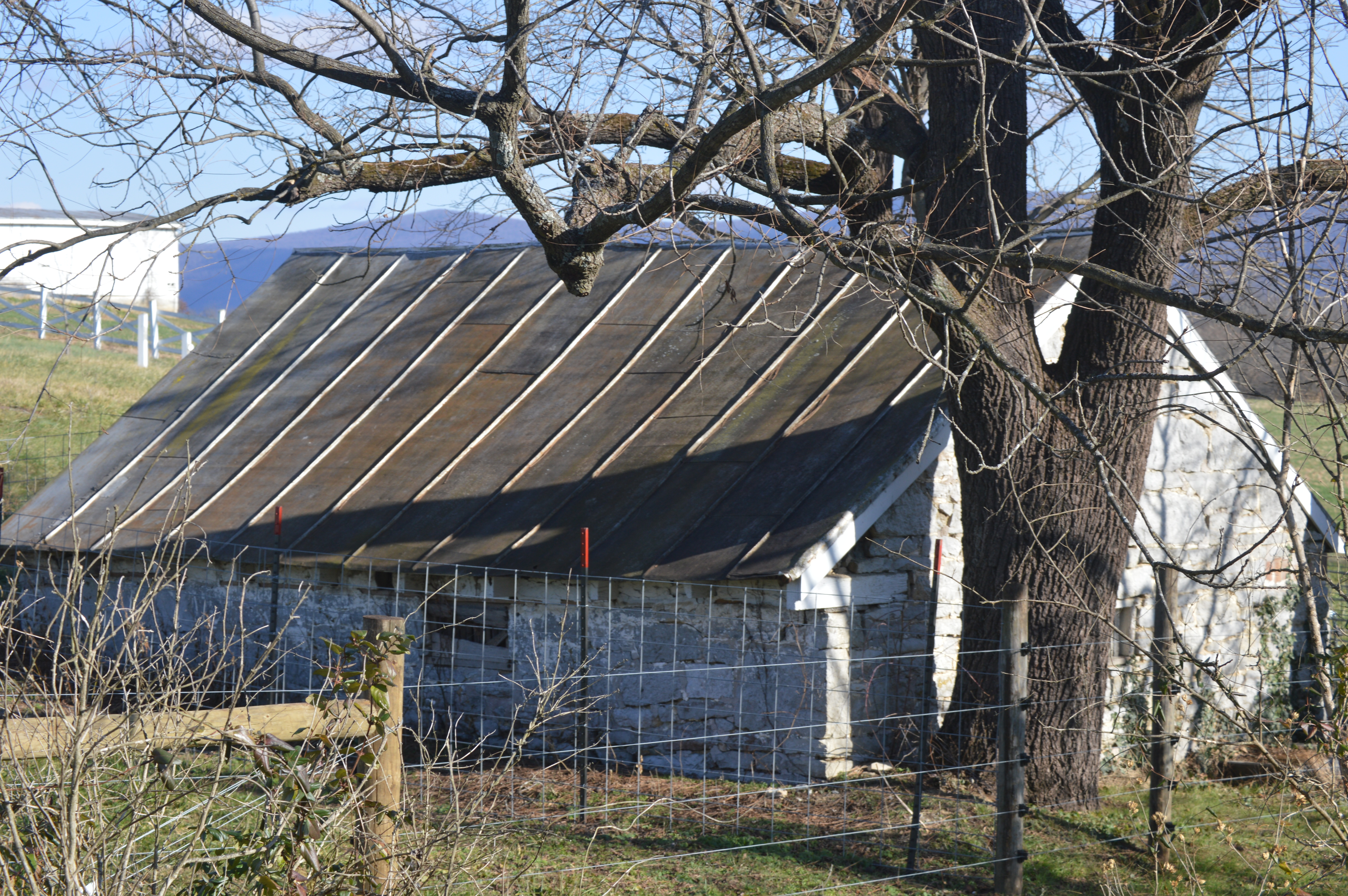 A stone outbuilding on the grounds of the former Shenandoah County Farm (the county poor farm), located on Zion Church Road southwest of Strasburg in Shenandoah County, Virginia, United States. The farm complex is listed on the National Register of Historic Places.